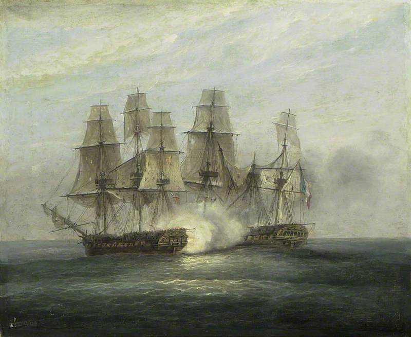 The engagement between H.M.S. Phoenix and the French Frigate Didon, 10 August 1805, by Thomas Luny ASH ASHM AN1916 23 Medium oil on canvas Measurements H 46 x W 56 cm Ashmolean Museum, University of Oxford Accession number AN1916.23